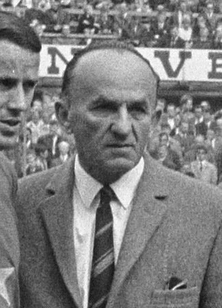 Friedrich Donnenfeld in 1966.